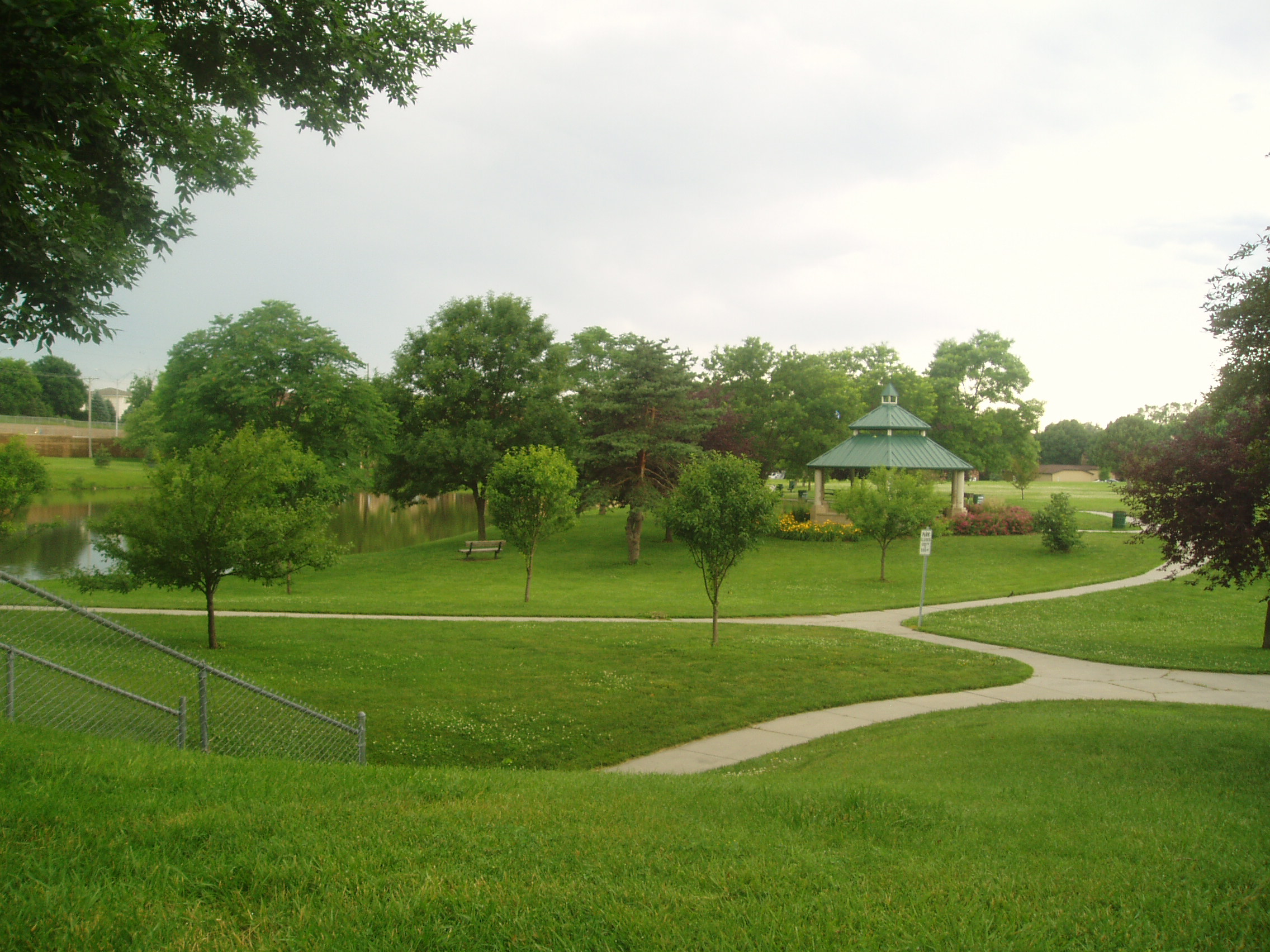 inside of the park